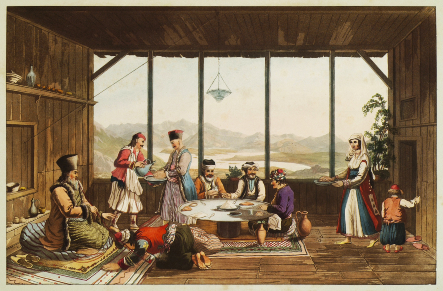 Edward Dodwell. A Classical and Topographical Tour through Greece, during the Years 1801, 1805, and 1806, vol. ΙΙ, London, Rodwell and Martin, 1819.